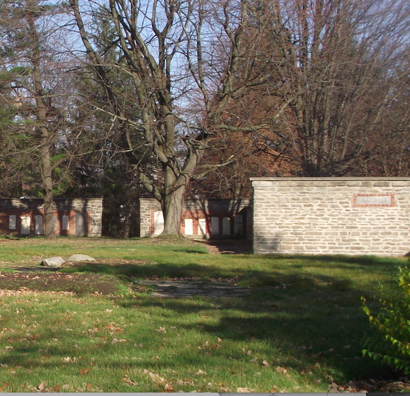 This photo depicts the Aultsville sign and wall of the pioneer memorial near Upper Canada Village in Ontario, Canada where it's cemetery's stone are encased in a brick wall.